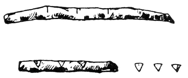 Illustration showing Ikebana bending technique with wedges.